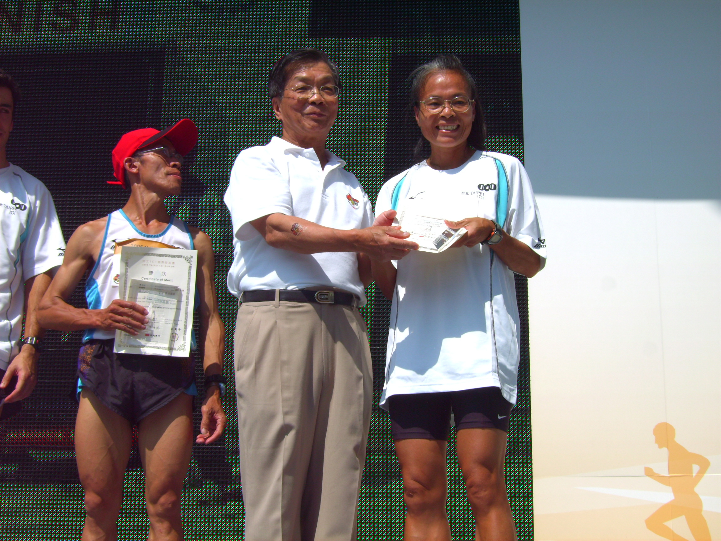 Mei-Lian Chang wins the 6th Place in Women's Elite Group at 2006 Taipei 101 Run Up.